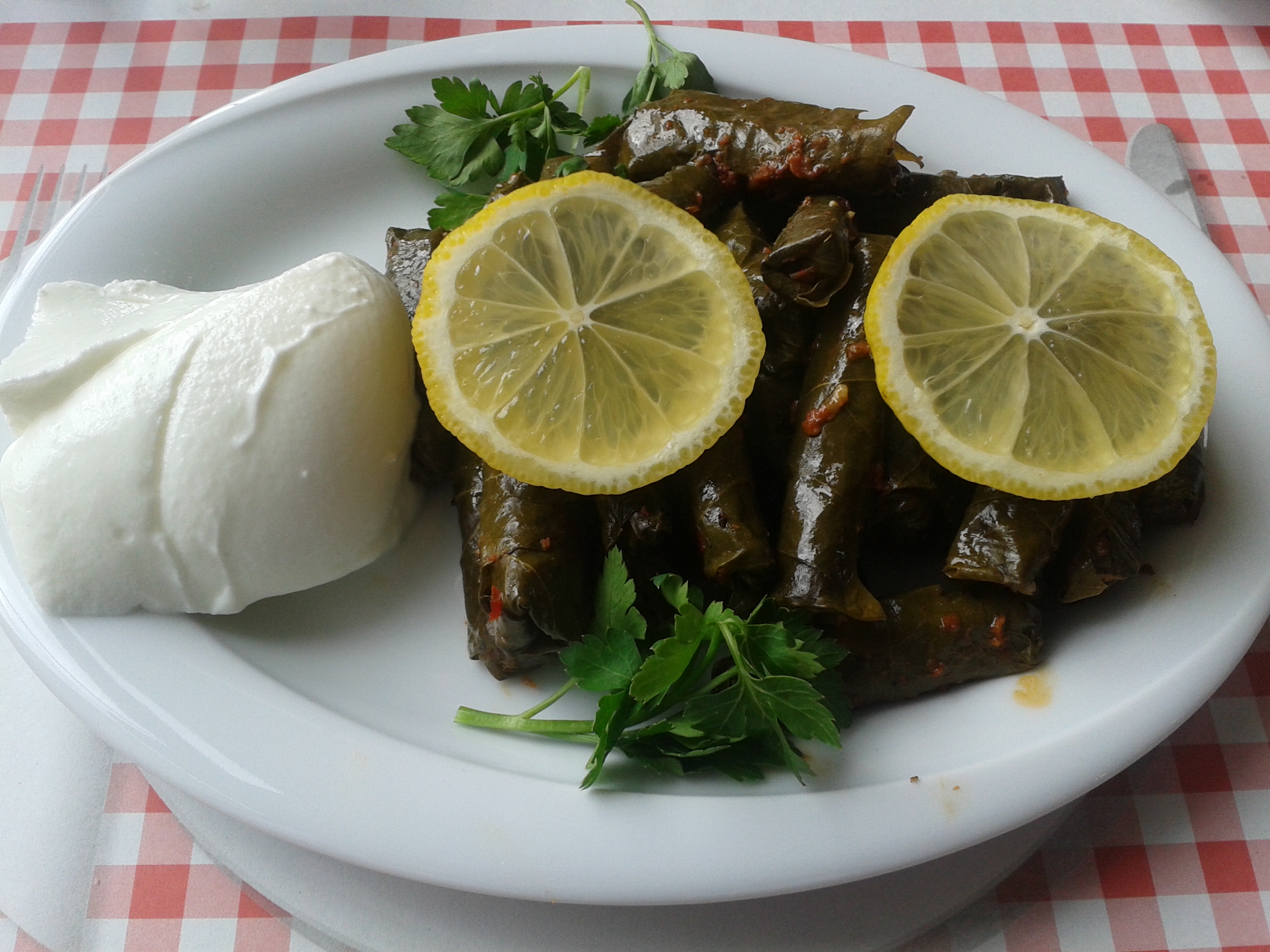 "Yaprak sarma" in Ankara, Turkey.